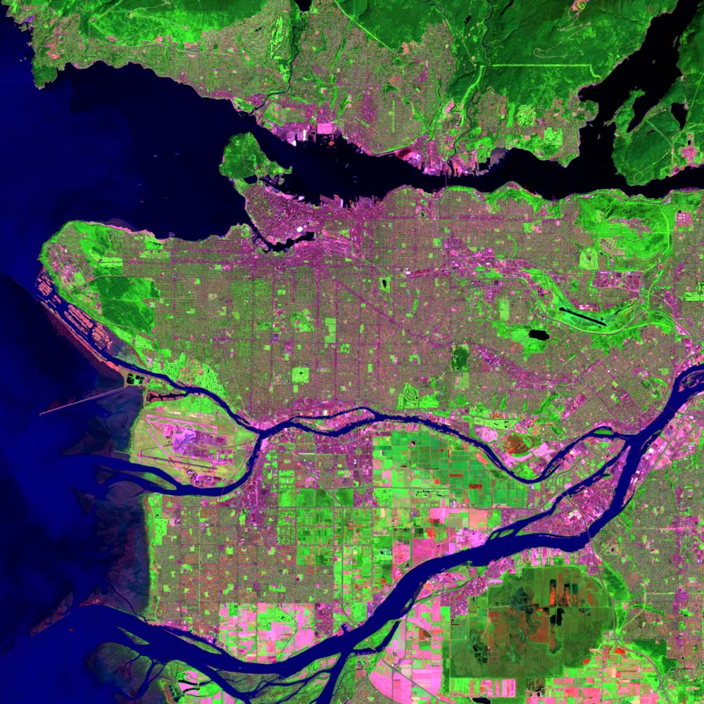 Landsat image of Vancouver, British Columbia. This image is a work of the National Oceanic and Atmospheric Administration, taken or made during the course of an employee's official duties. As works of the U.S. federal government, all NOAA images are in the public domain.